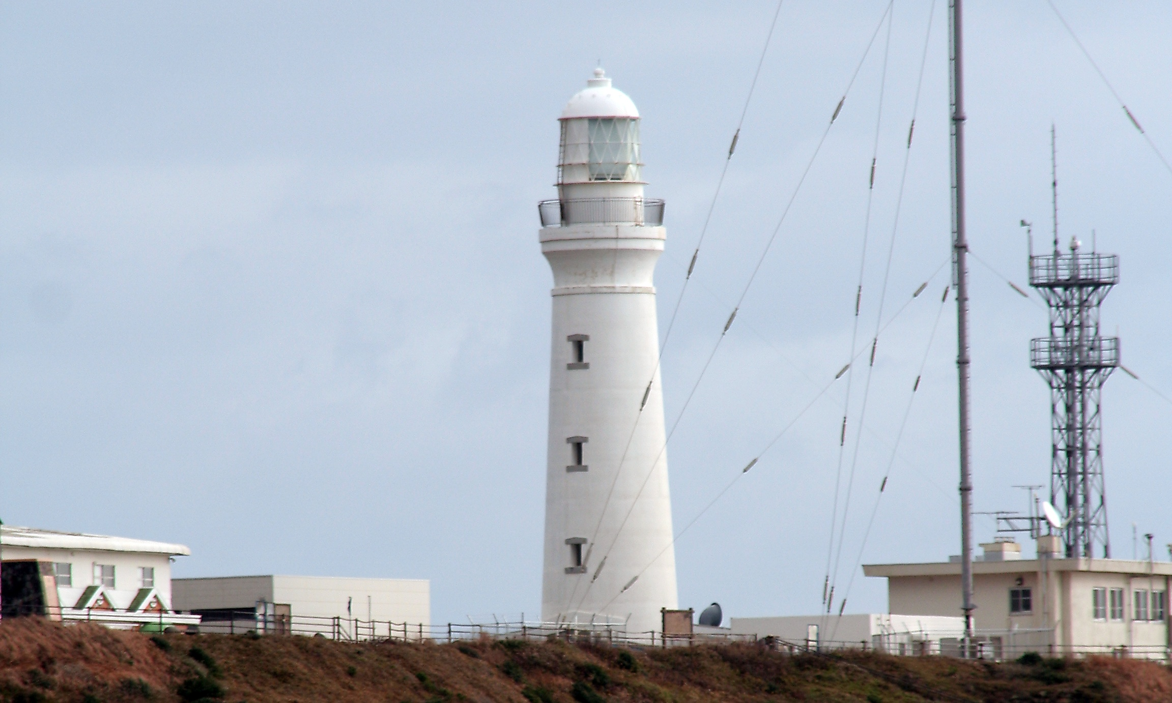 Inubozaki Lighthouse, Jan. 2007, Chiba JAPAN ; Japanese description:犬吠埼灯台遠景 2007年1月 千葉県銚子市 (投稿者自身による撮影)